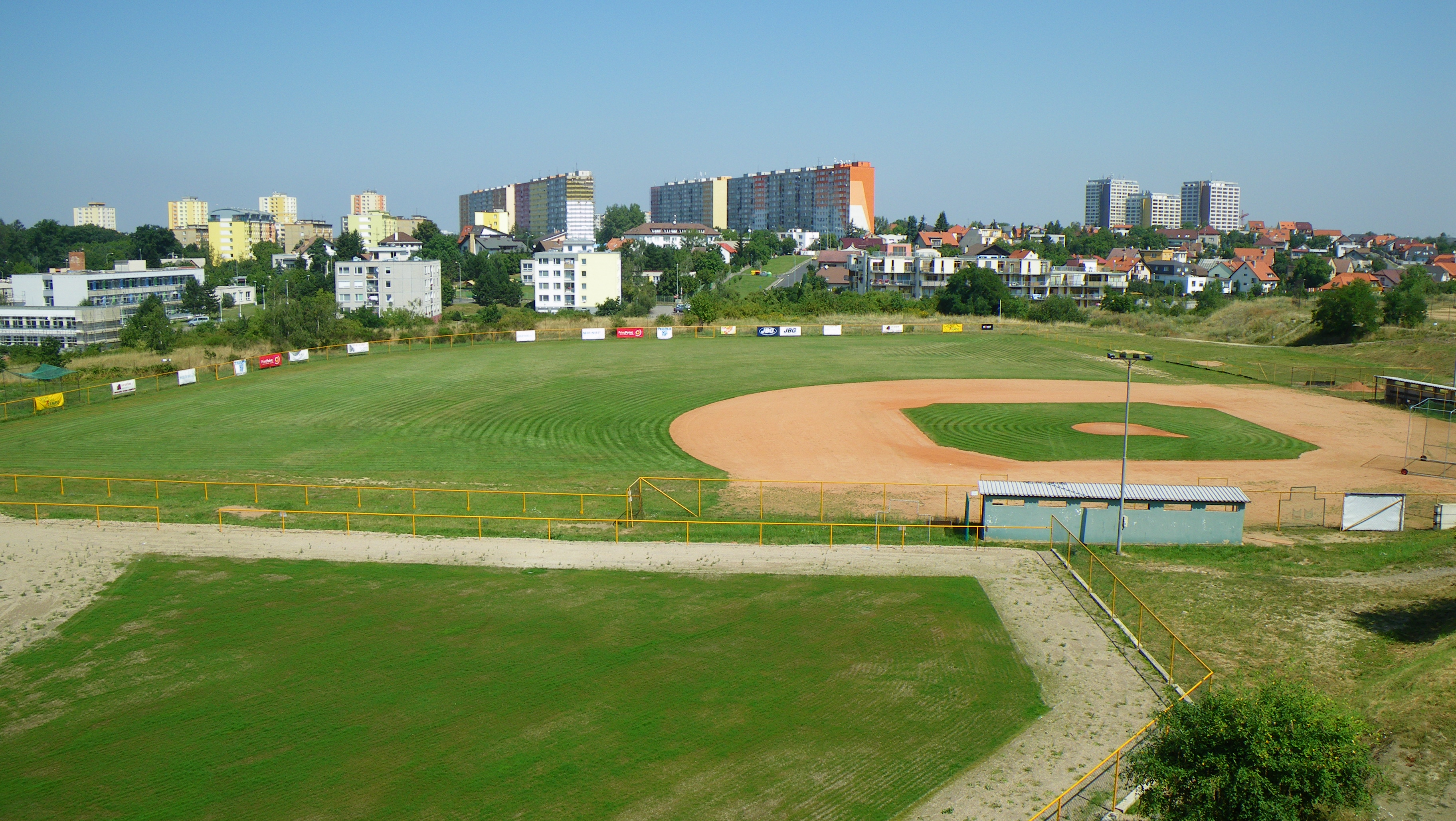 CZ - Prague, TJ Tempo Praha, baseball field